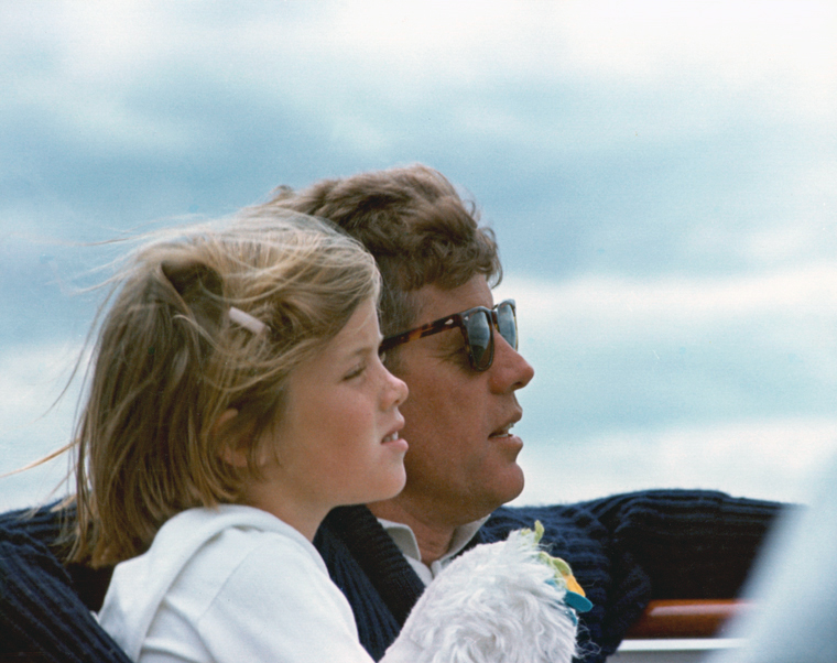 John F. Kennedy and Caroline Kennedy, 25 August 1963, Aboard the "Honey Fitz", off Hyannis Port, Massachusetts.